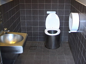 I took this picture at Susedalens restarea, E6,Sweden